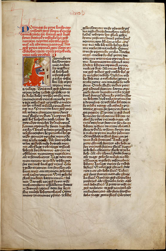 Bible olomoucká, I. díl, sign. M III 1/I, folio 0001r